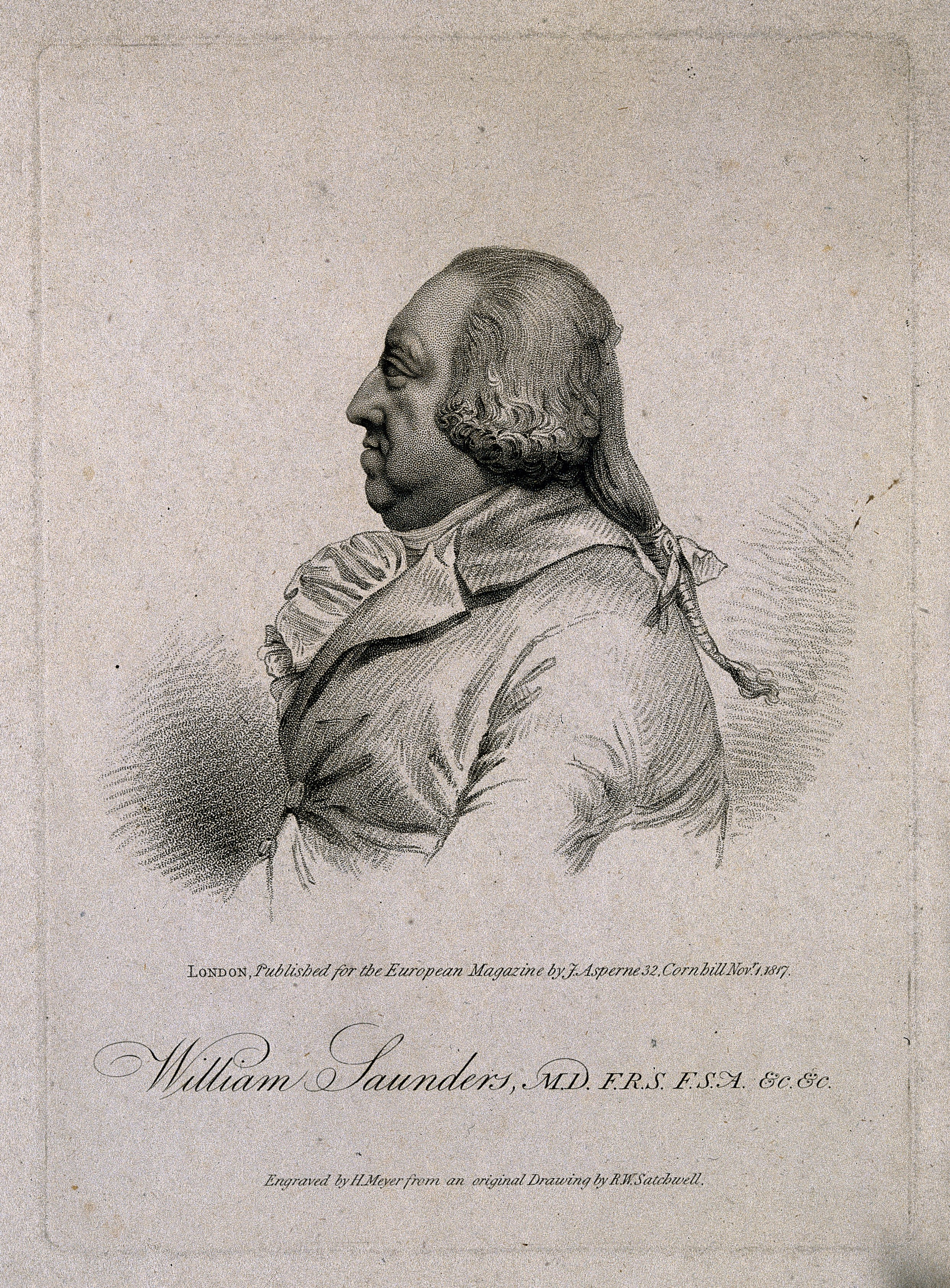 William Saunders. Stipple engraving by H. Meyer, 1817, after R. W. Satchwell. Iconographic Collections Keywords: portrait prints; William Saunders; stipple prints